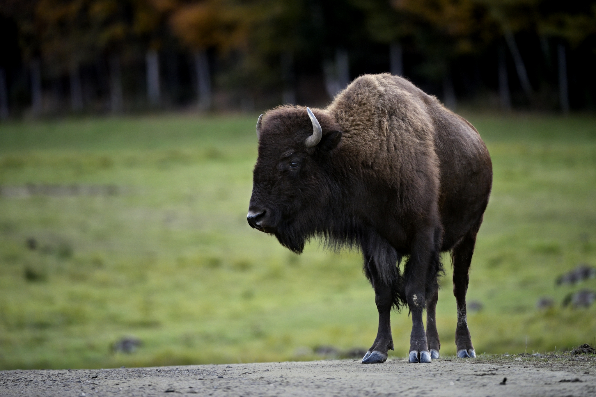 Taken at Omega park Quebec,Canada